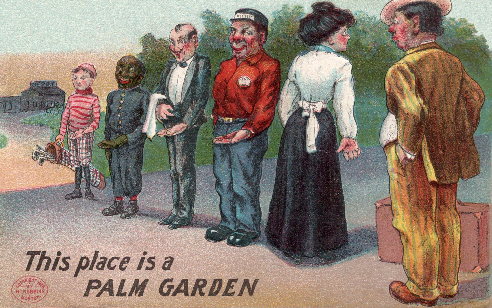 Embossed postcard reads "This place is a PALM GARDEN" (pun on the "palm" tree). Bad puns were typical humor for the period. It shows the tip-seeking service people a traveller would encounter: a caddy, a porter, a waiter, a driver, and a maid/housekeeper. Back is divided and postmarked 1909-09-07. It reads, "This is one reason why I can't leave Atlantic City."